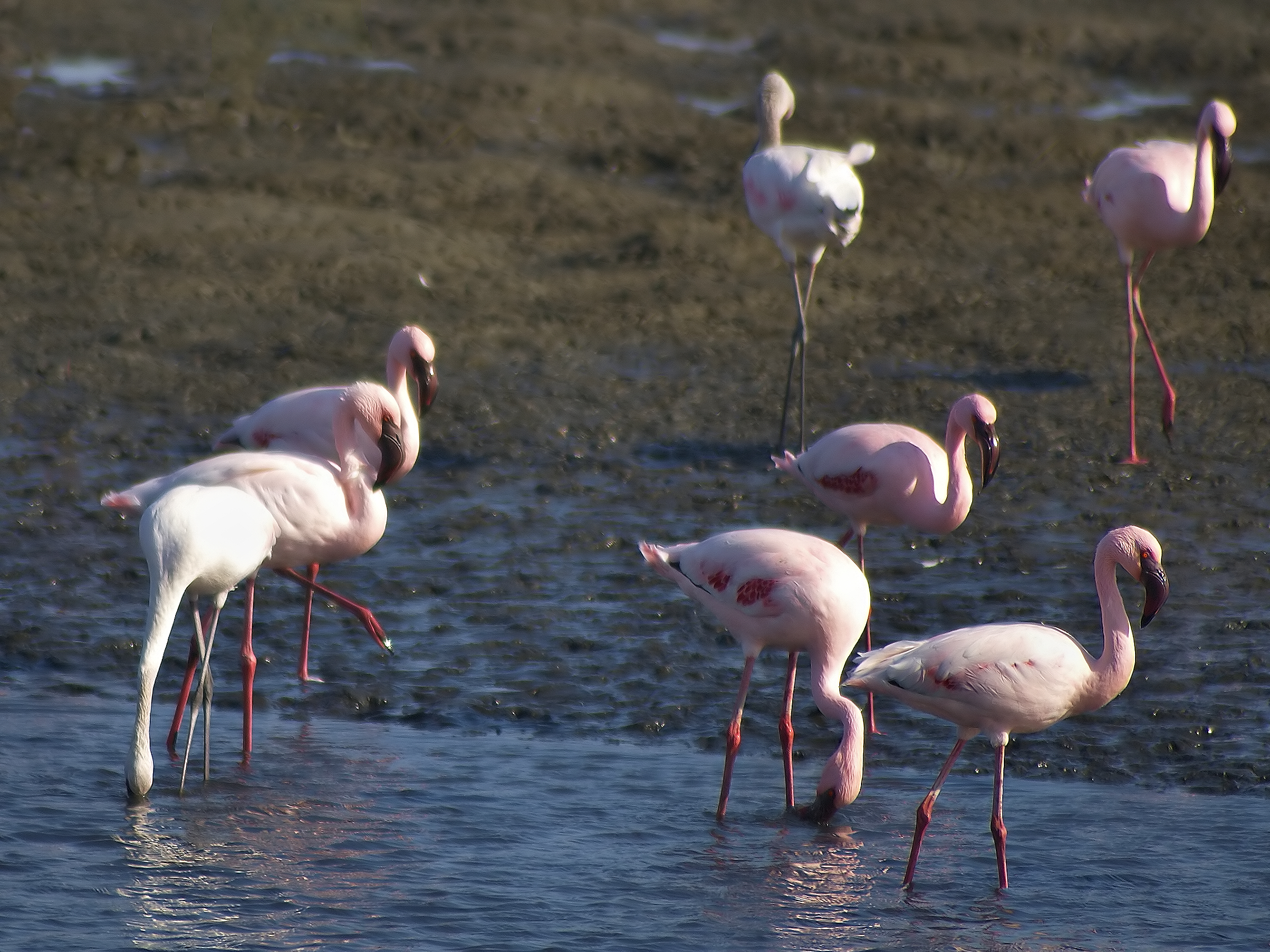 A group of Lesser Flamingoes at Walvis Bay, Namibia